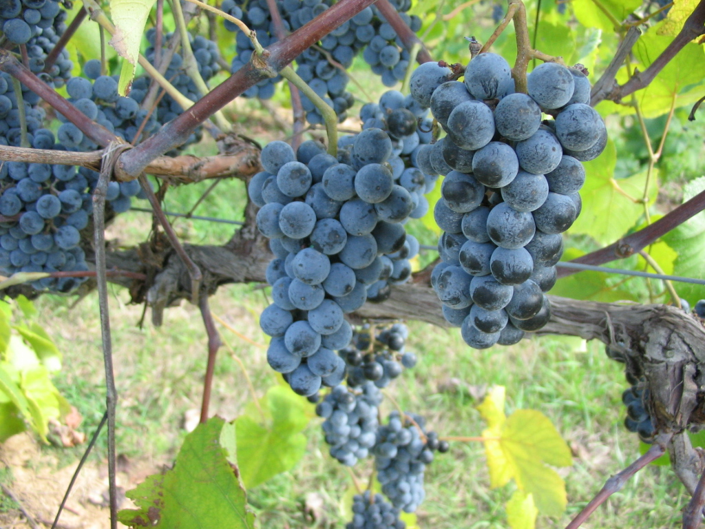 Hybrid Norton grapes at Chaumette Winery